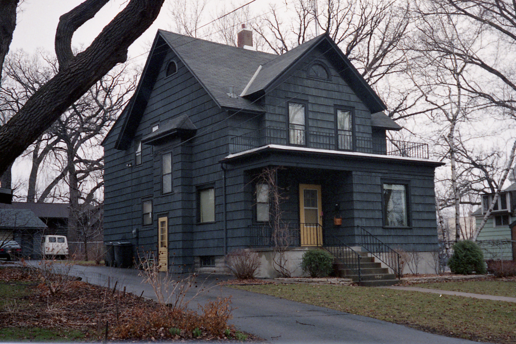 Maynard and Harriet Pirsig (Sjobeck) lived here and raised their three children, Robert, Jean and Wanda. Robert, the author of Zen and the Art of Motorcycle Maintenance, grew up in the bedroom with the front left window on the second floor.